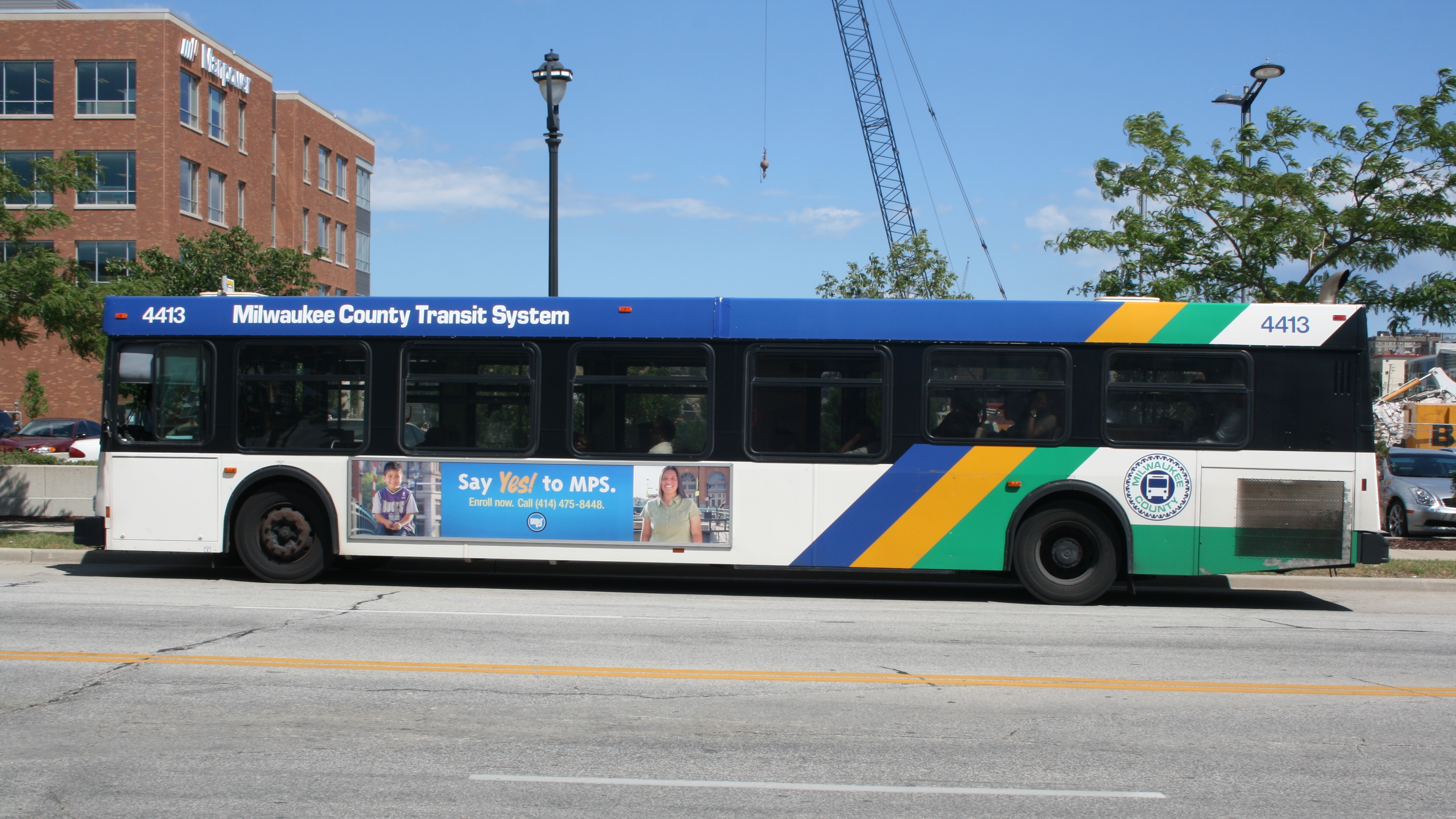 Milwaukee County Transit System bus 4413, a 2001 New Flyer D40LF bus, northbound on N. Martin Luther King Jr. Blvd. at W. Vliet Street, on route 19.